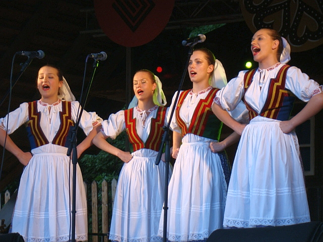 Jarmark Folklorystyczny in Sanok